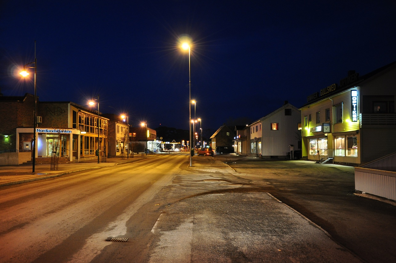 Leknes main street (Storgata) by night, Vestvågøy municipality, Lofoten, Nordland, Norway